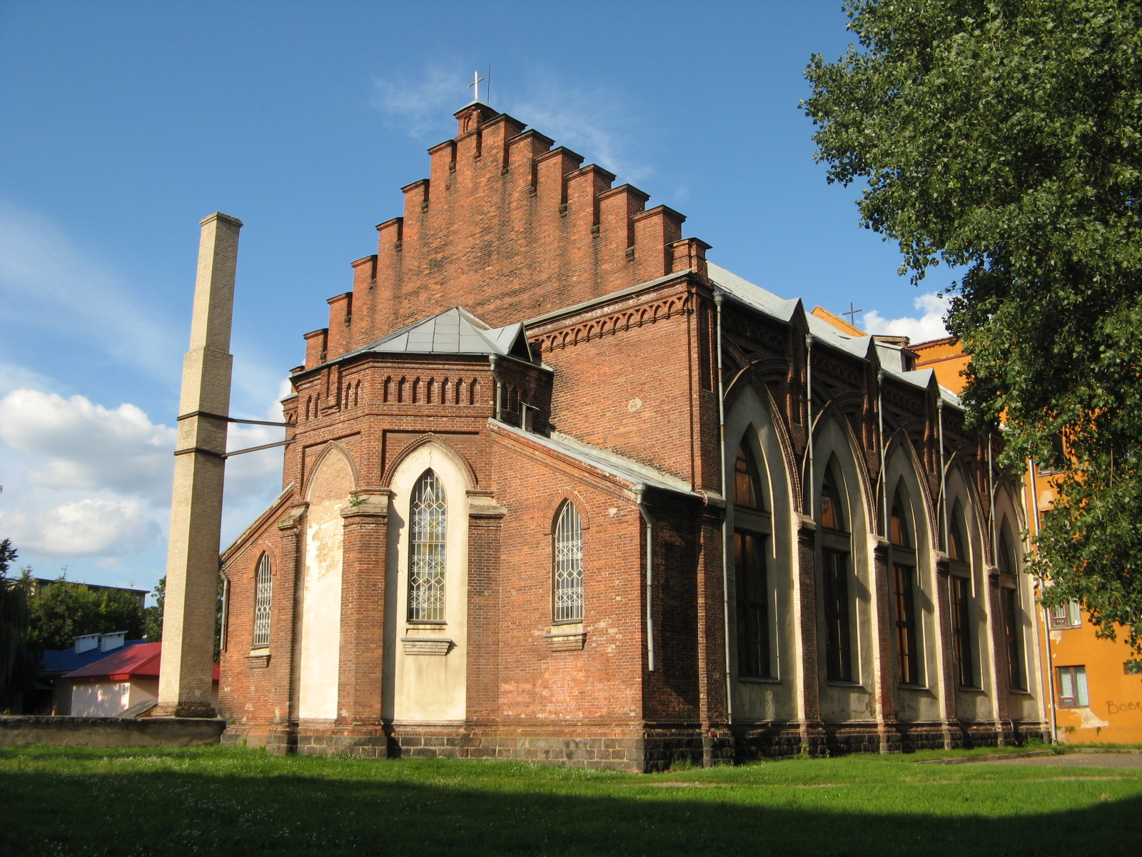 Roman-Catholic church of Immaculate Conception of Mary (Babrujsk, modern condition)